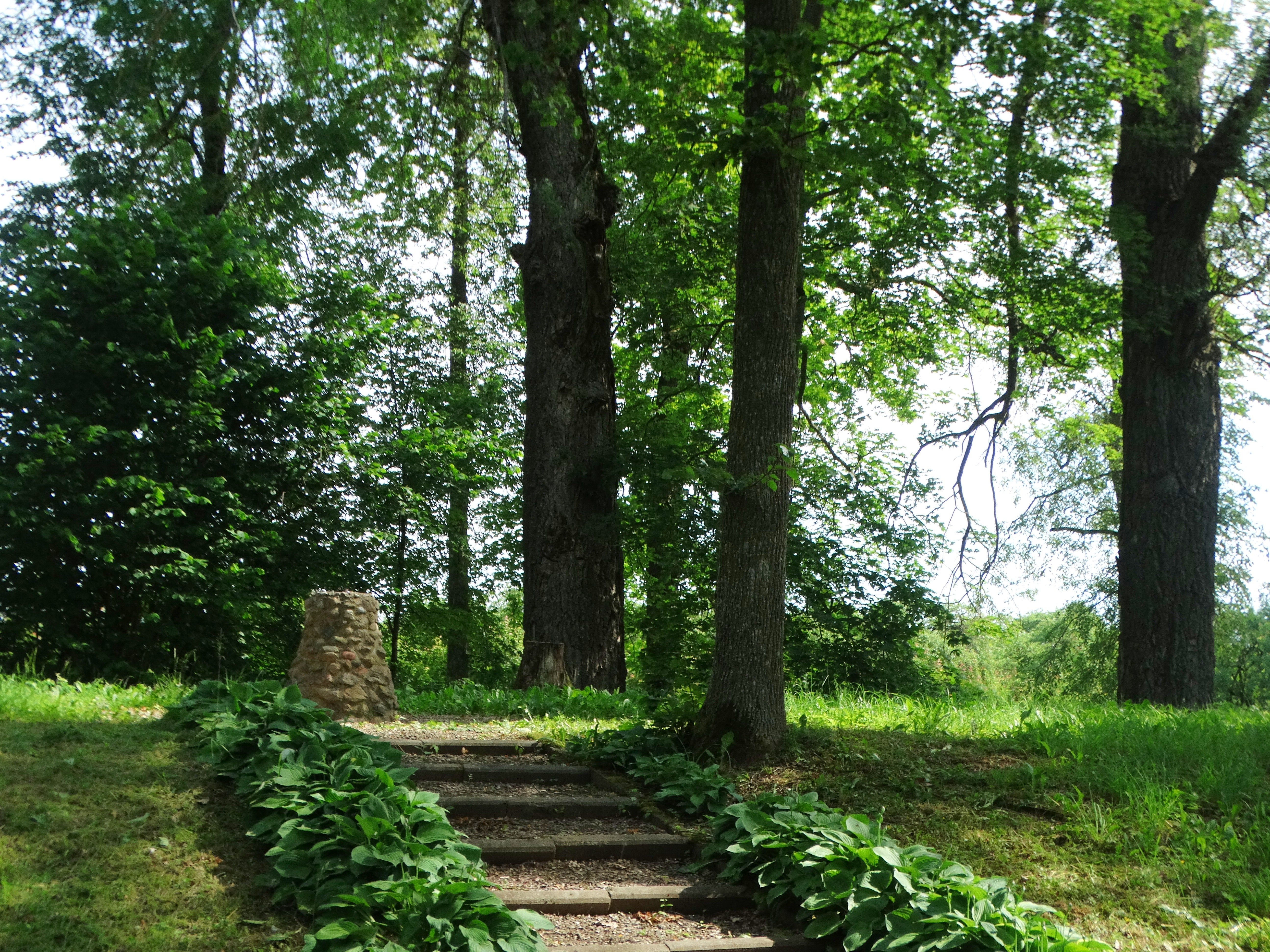 Park in Kulva, Jonava district, Lithuania